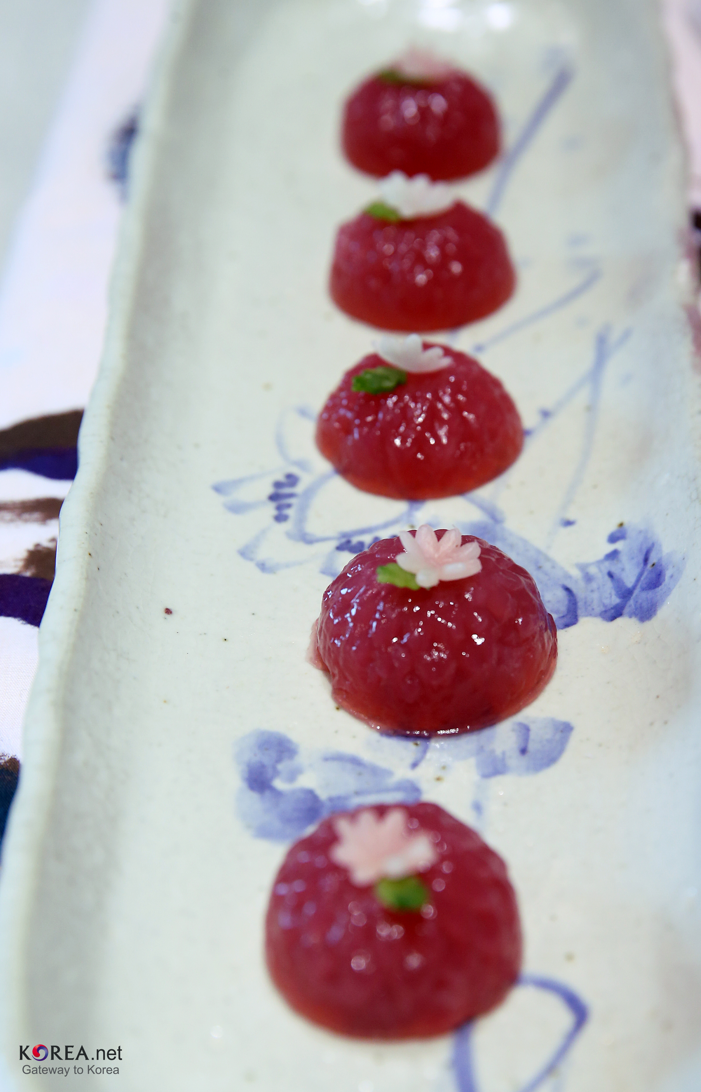 Special symposium on Hanbok National Museum of Korea, Seoul 2013.04.04. Ministry of Culture, Sports and Tourism Korean Culture and Information Service Newsroom Jeon Han 한복 심포지엄 '한복의 미래, 입어서 자랑스런 우리 옷' 국립중앙박물관 문화체육관광부 해외문화홍보원 코리아넷 전한